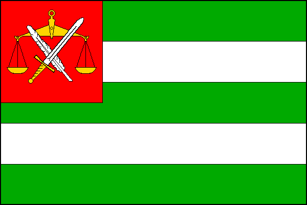 Municipal flag of Černé Voděrady , District Prague East, Czech Republic